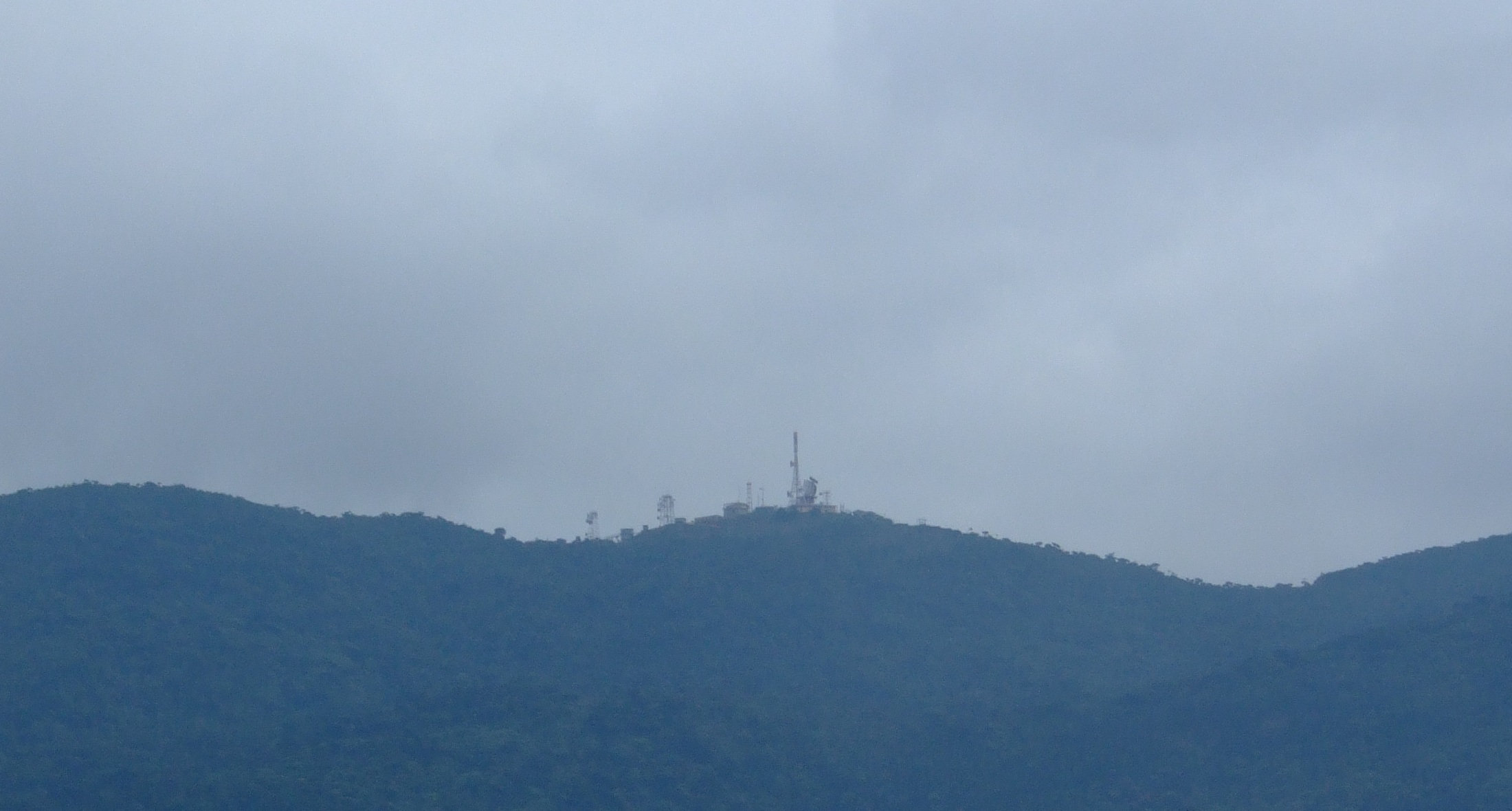 Radio equipment seen at the summit of Mount Pedro, the tallest mountain in Sri Lanka.